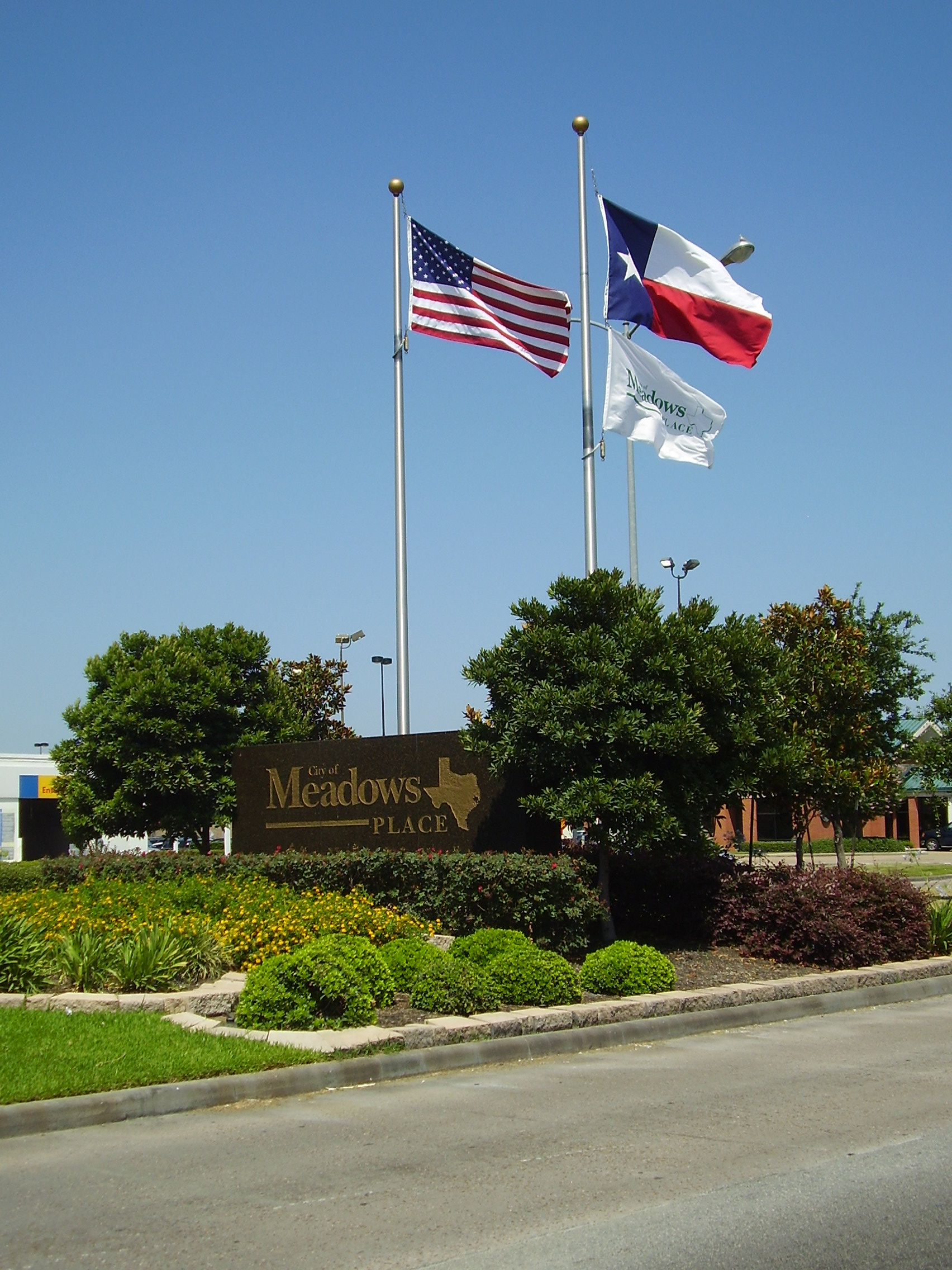 Entrance to Meadows Place, Texas